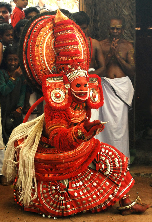 Bali Theyyam from a "Kavu" in Payyanur